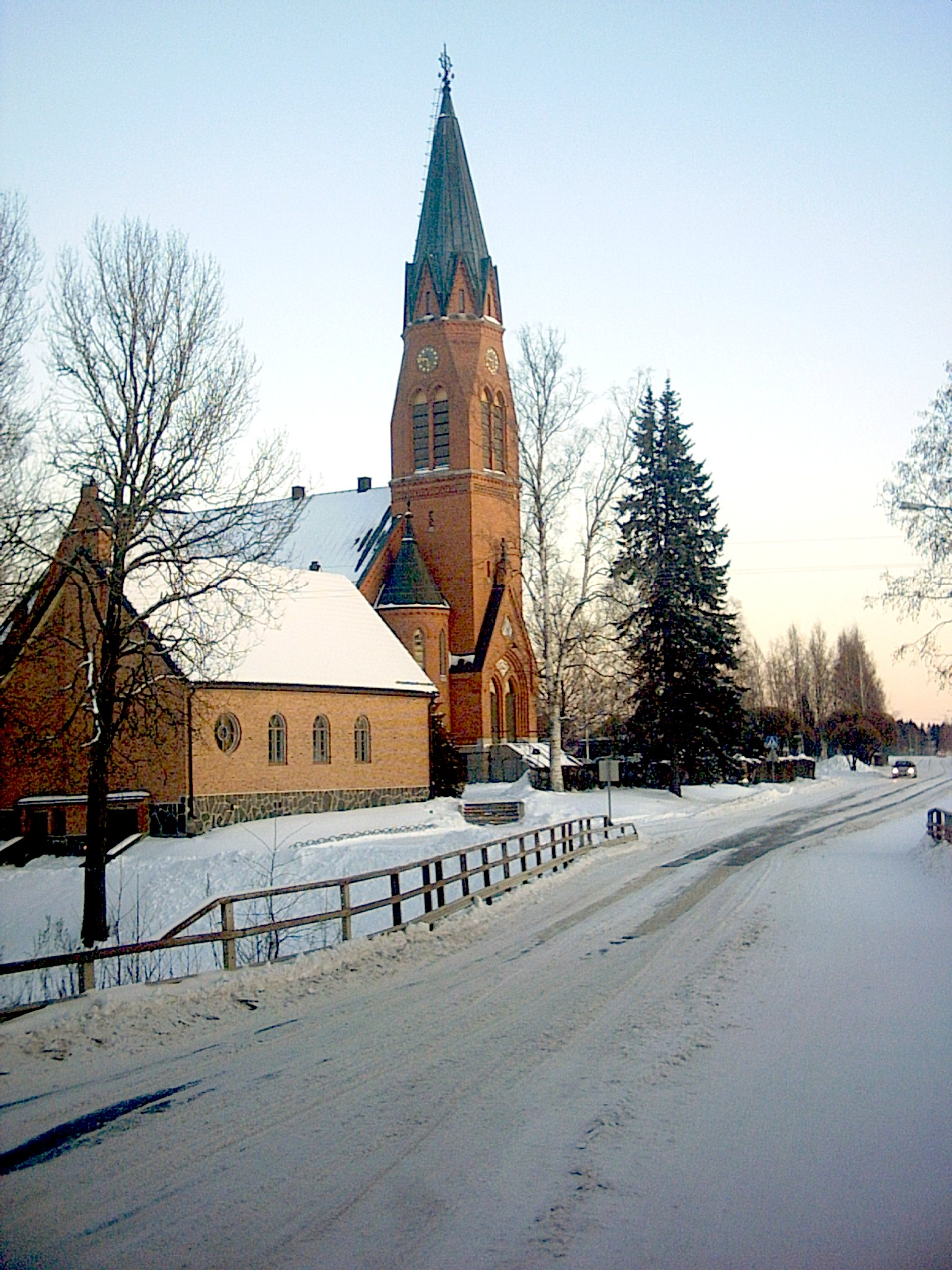 Church of Kauhava, Finland seen from the Kirkkotie bridge